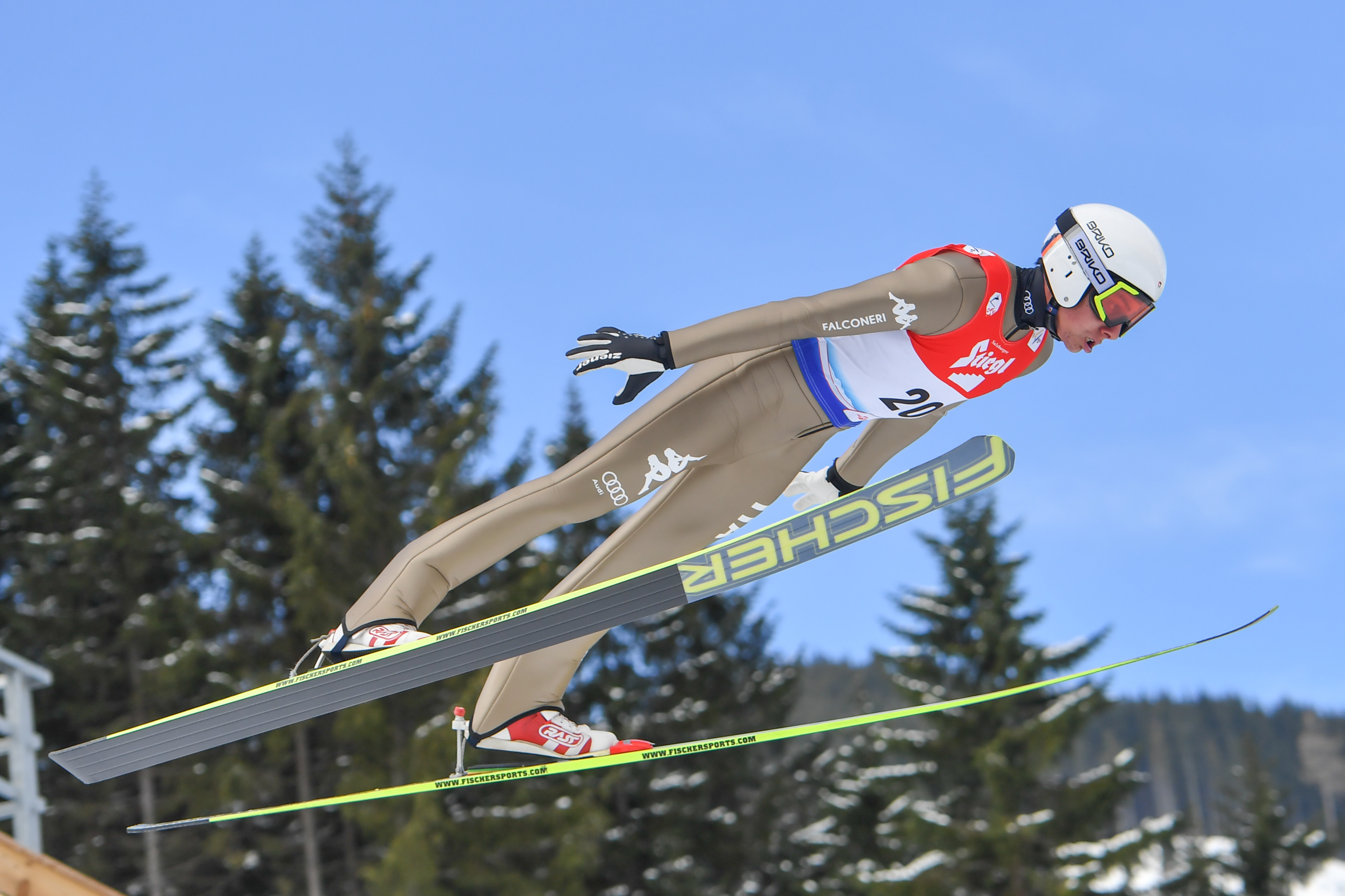 11/2/2017 Eisenerz, FIS Continental Cup Nordic Combined.